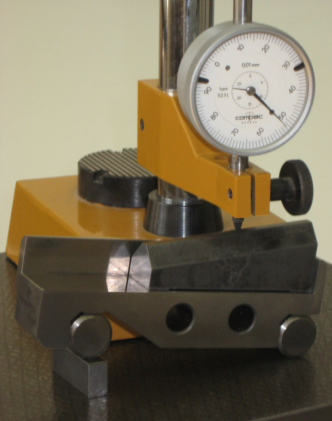 Measuring with sine bar